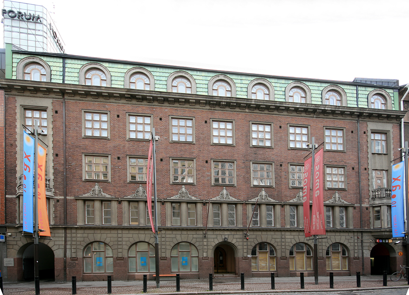 Amos Anderson art museum, Helsinki. Architect: W.G. Palmqvist. Built 1913.